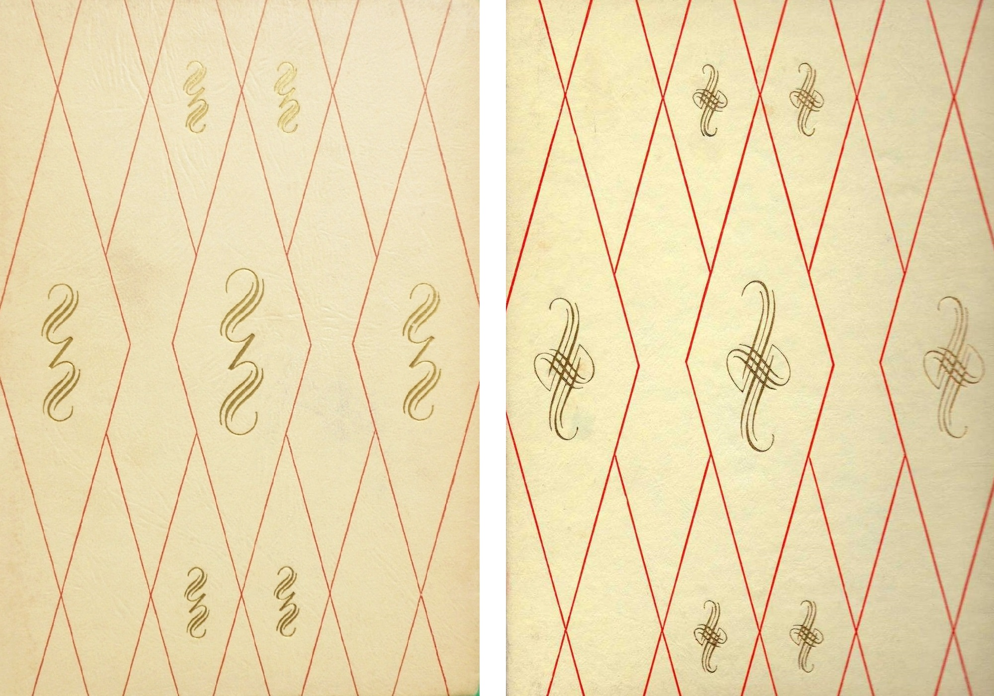 Rouge et Or book collection